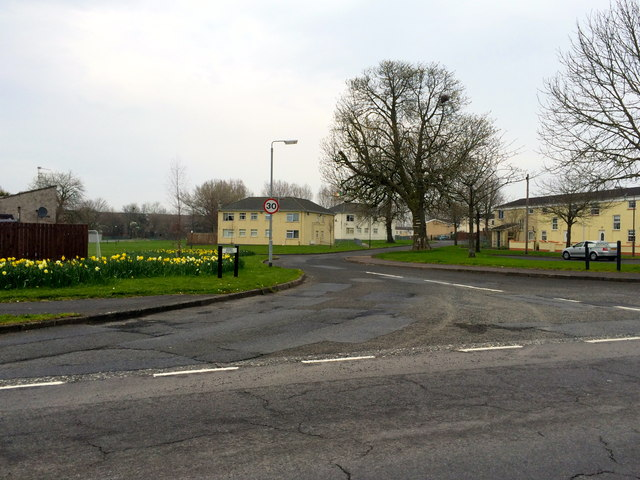 This is one of the entrances to the Ardowen estate in the Monbrief sector of Craigavon.